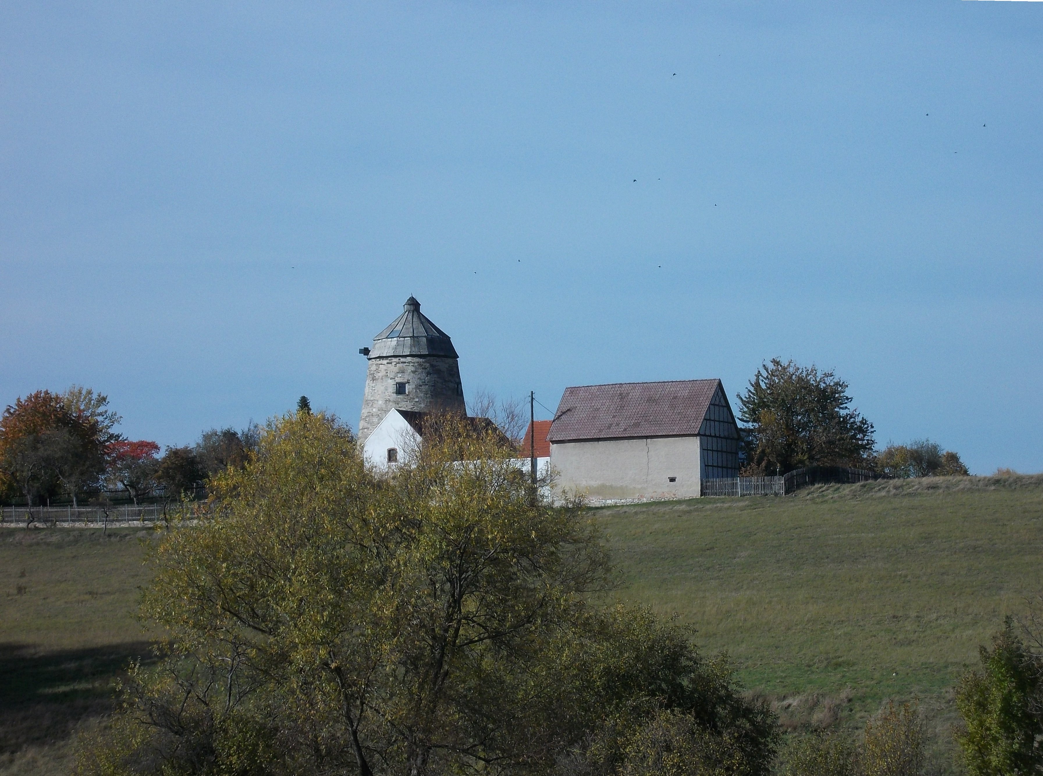 Tower mill at Rippicha (Gutenborn, district of Burgenlandkreis, Saxony-Anhalt)